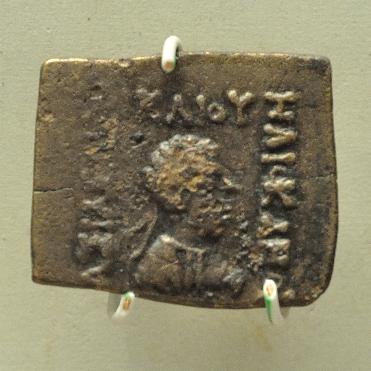 Photographed in Kolkata